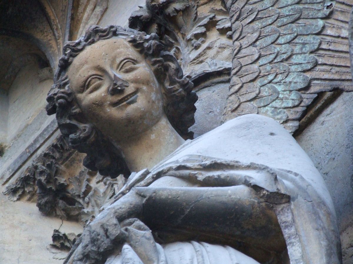 Cathedral Notre-Dame de Reims, France - Gothic scultures decorating the West Front-Smiling angel